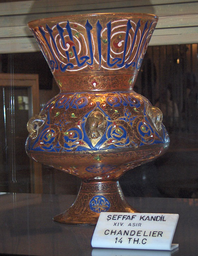 Oil lamp for mosque (14th c.); Mevlâna mausoleum; Konya, Turkey